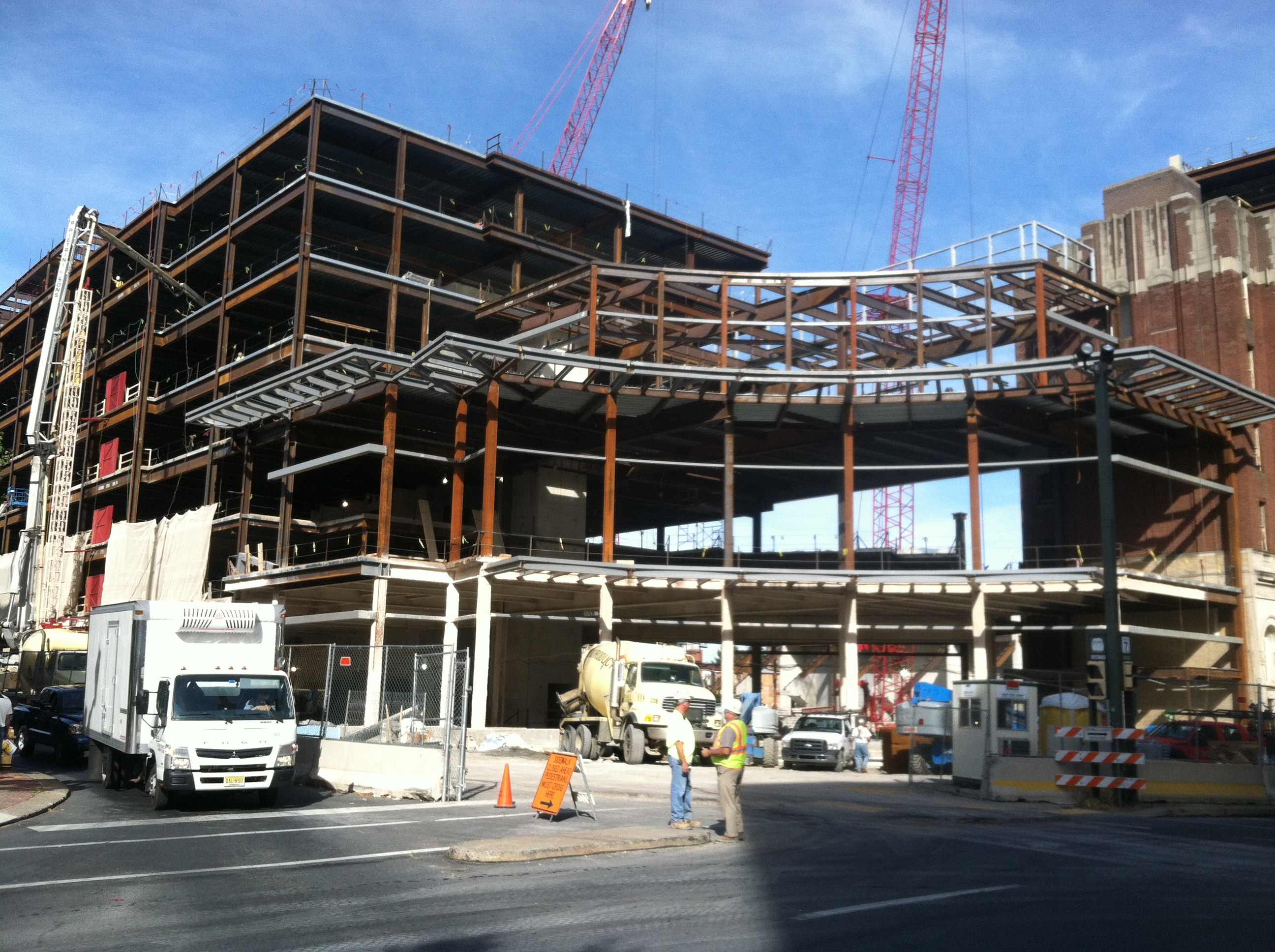 Ongoing construction of the PPL Center, a hockey arena in Allentown, Pennsylvania, on September 9, 2013. It will be used by the Wikipedia:American Hockey League's Wikipedia:Lehigh Valley Phantoms in 2014-15.